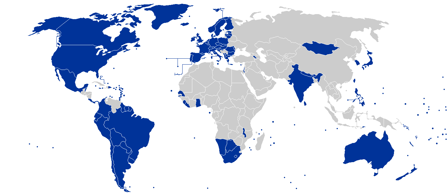 World map showing the countries considered “electoral democracies” (in blue), according to American organization Freedom House. Reference from the “Freedom in The World” report.